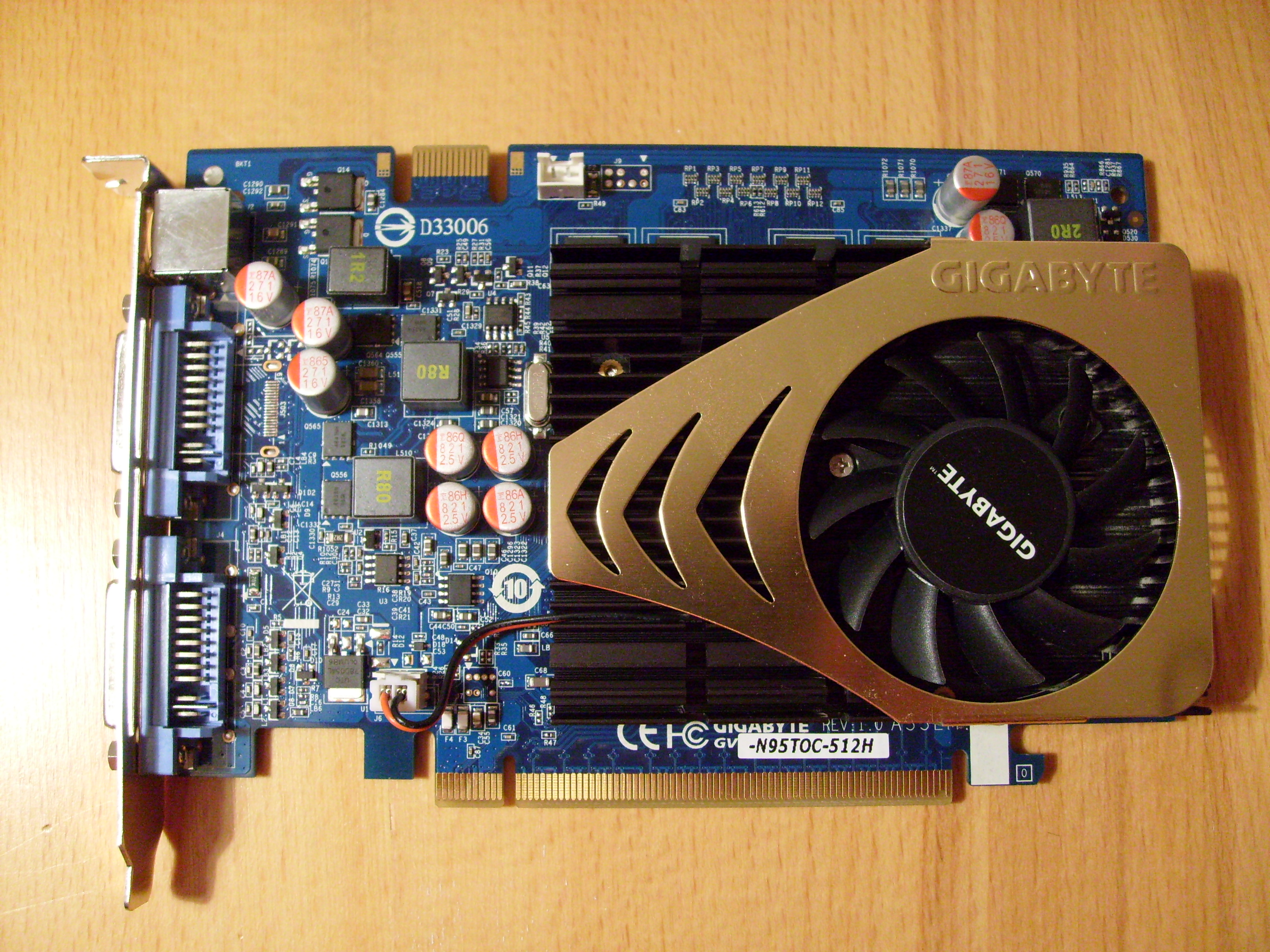 Gigabyte NVIDIA GeForce 9500 GT (GV-N95TOC-512H)